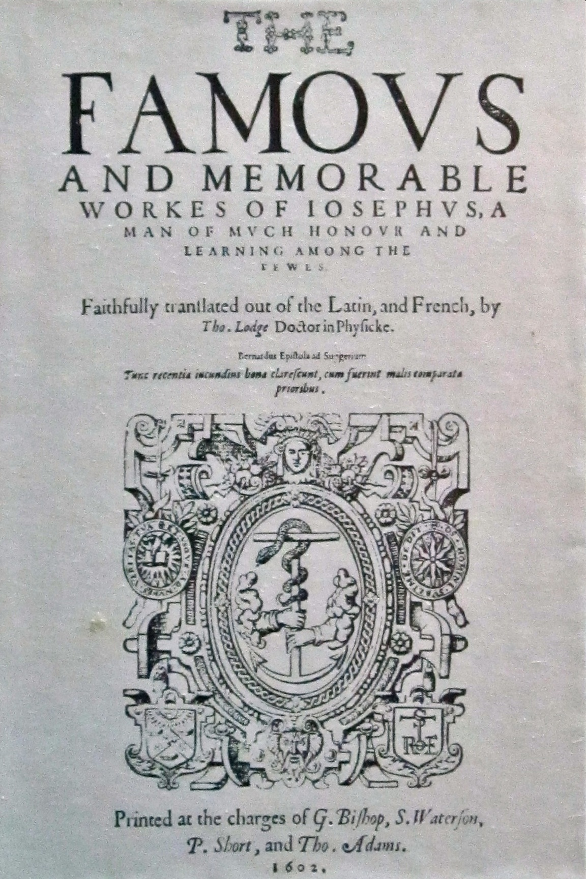 English Translation of "The famous and memorable work of Josephus Flavius", London, 1602